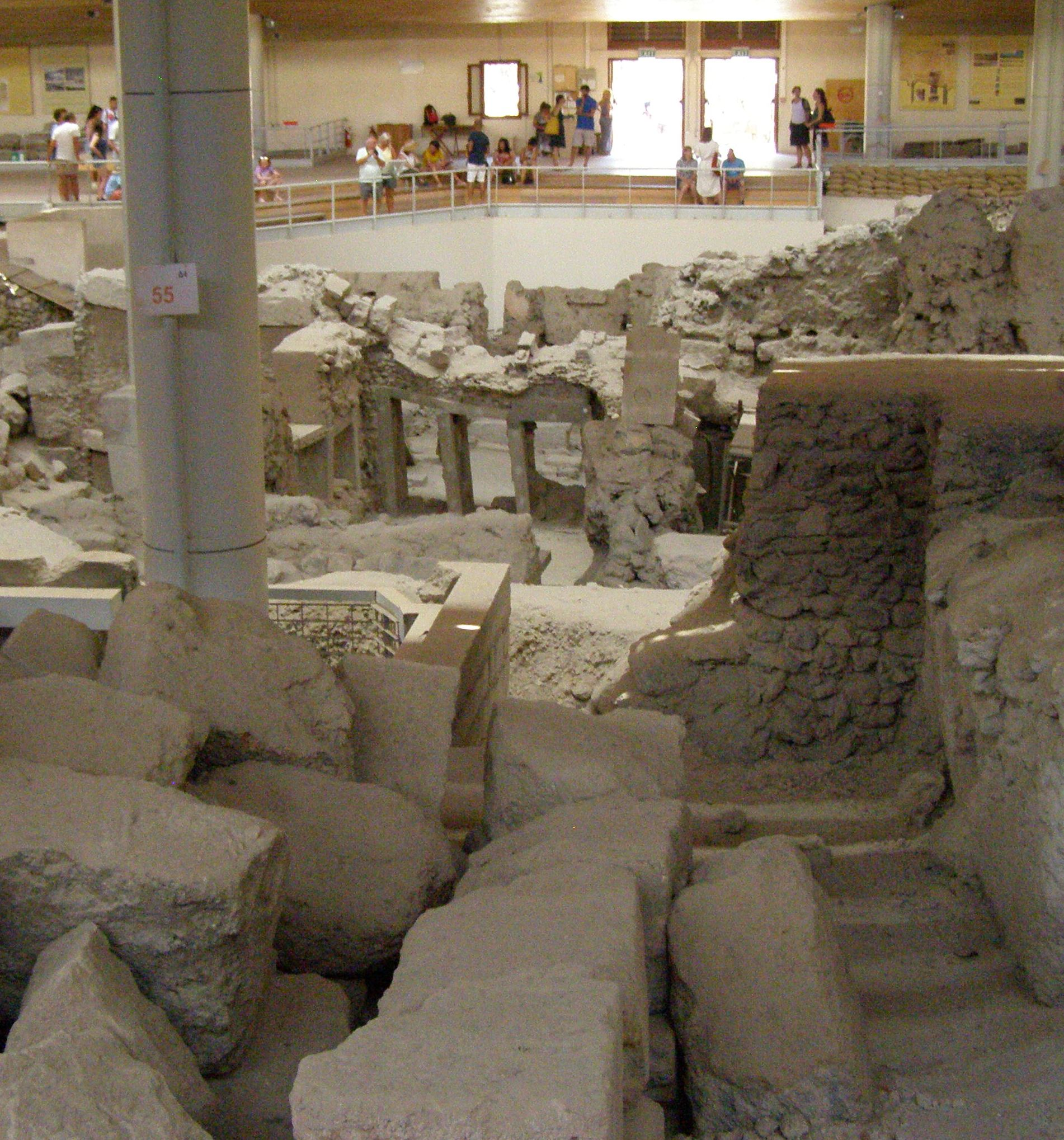 Spojující dveřní stěna.